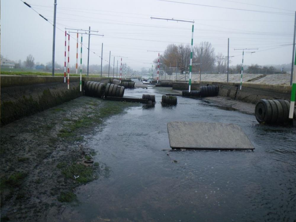 Prague-Troja Canoe Slalom truck tires used as flow diverters.